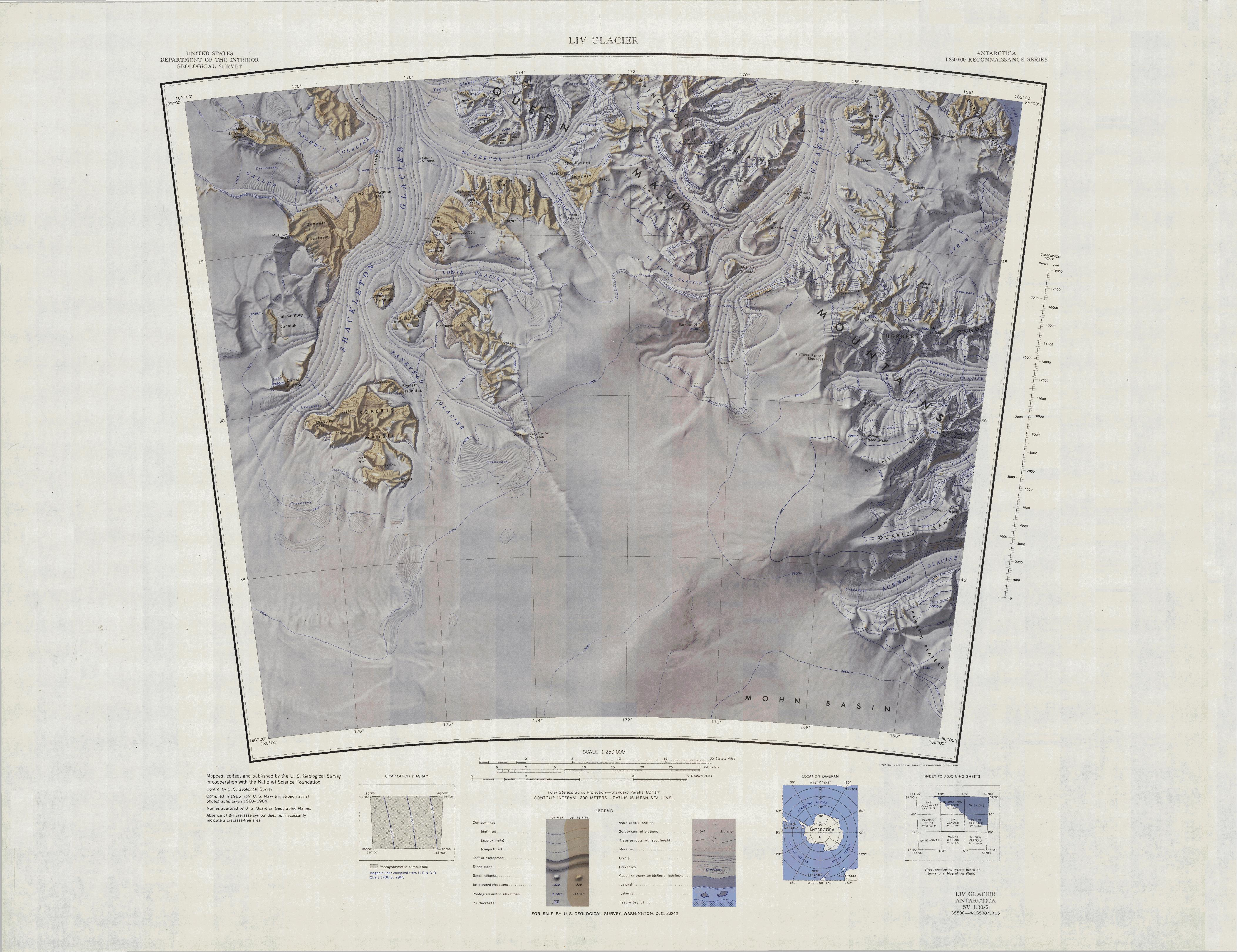 Map of Antarctica by the United States Antarctic Resource Center of the US Geological Society.